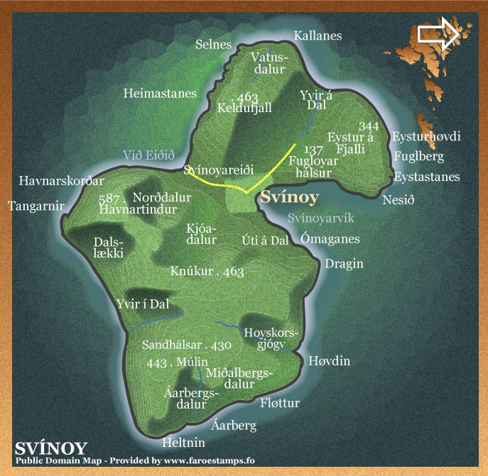 Svínoy, Faroe Islands